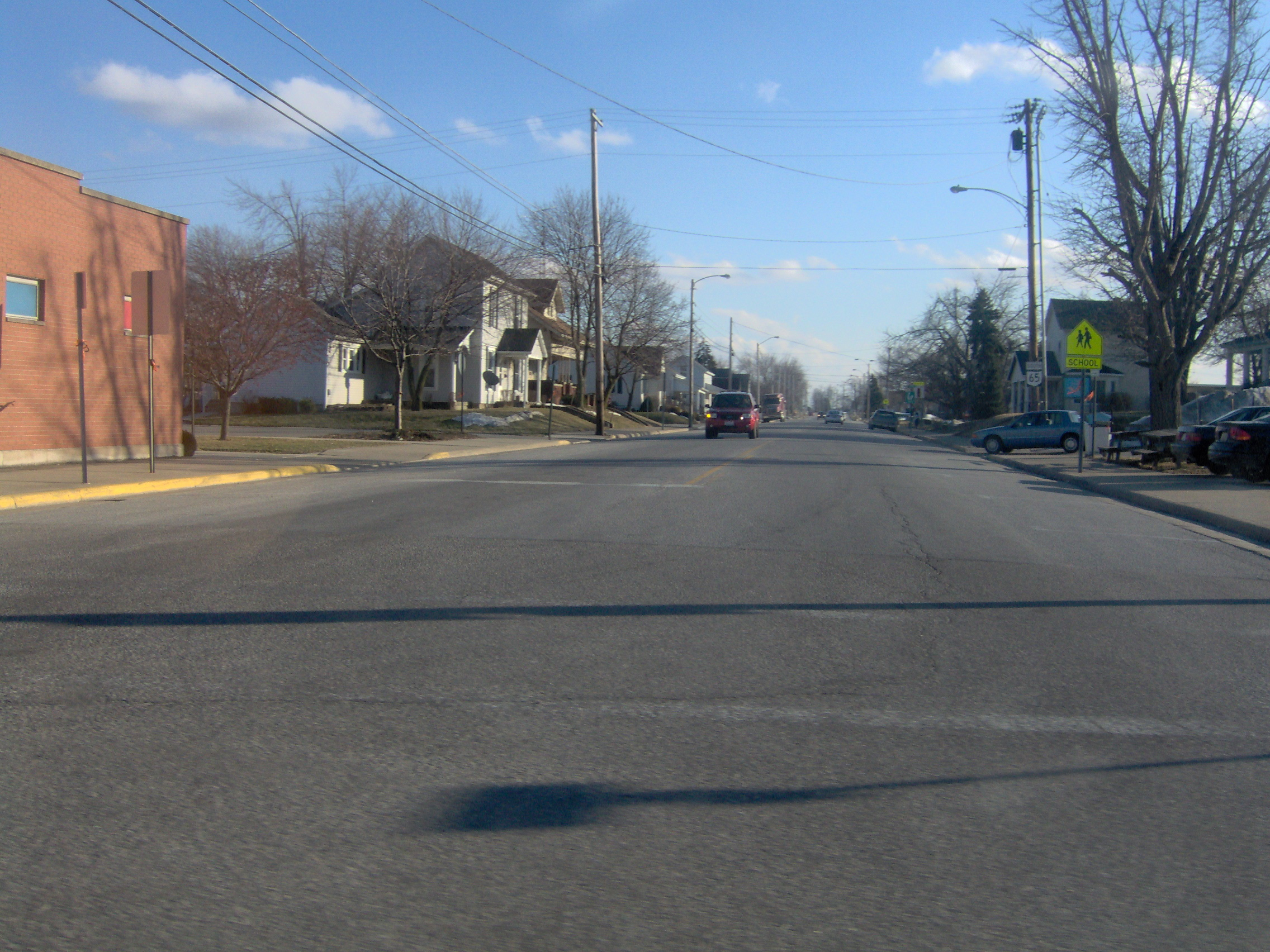 View along Ohio State Route 65 in Jackson Center, Ohio, from the main intersection in the village.